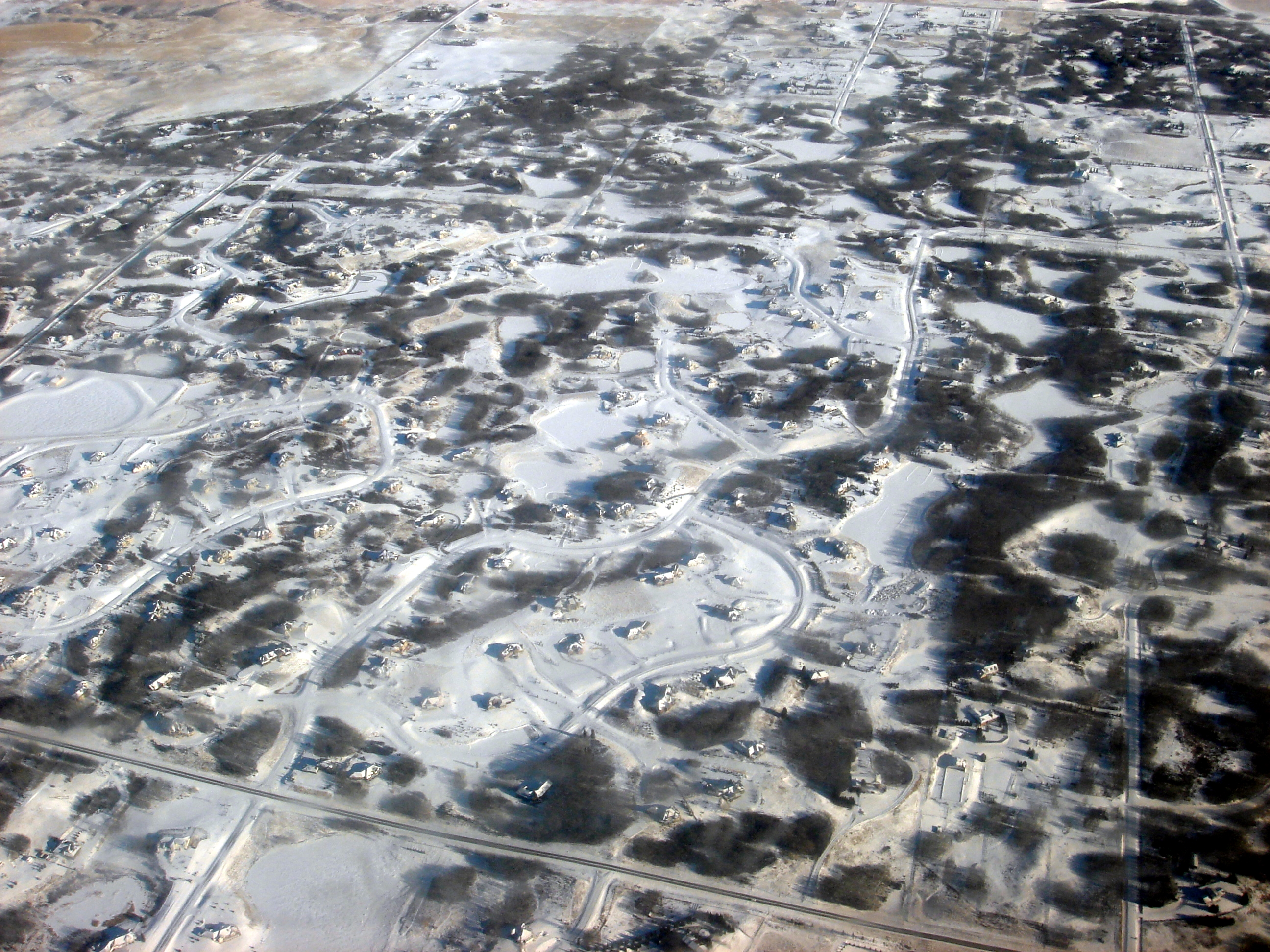 Acreges of Bearspaw, with Highway 1, west of Calgary, Alberta, Canada